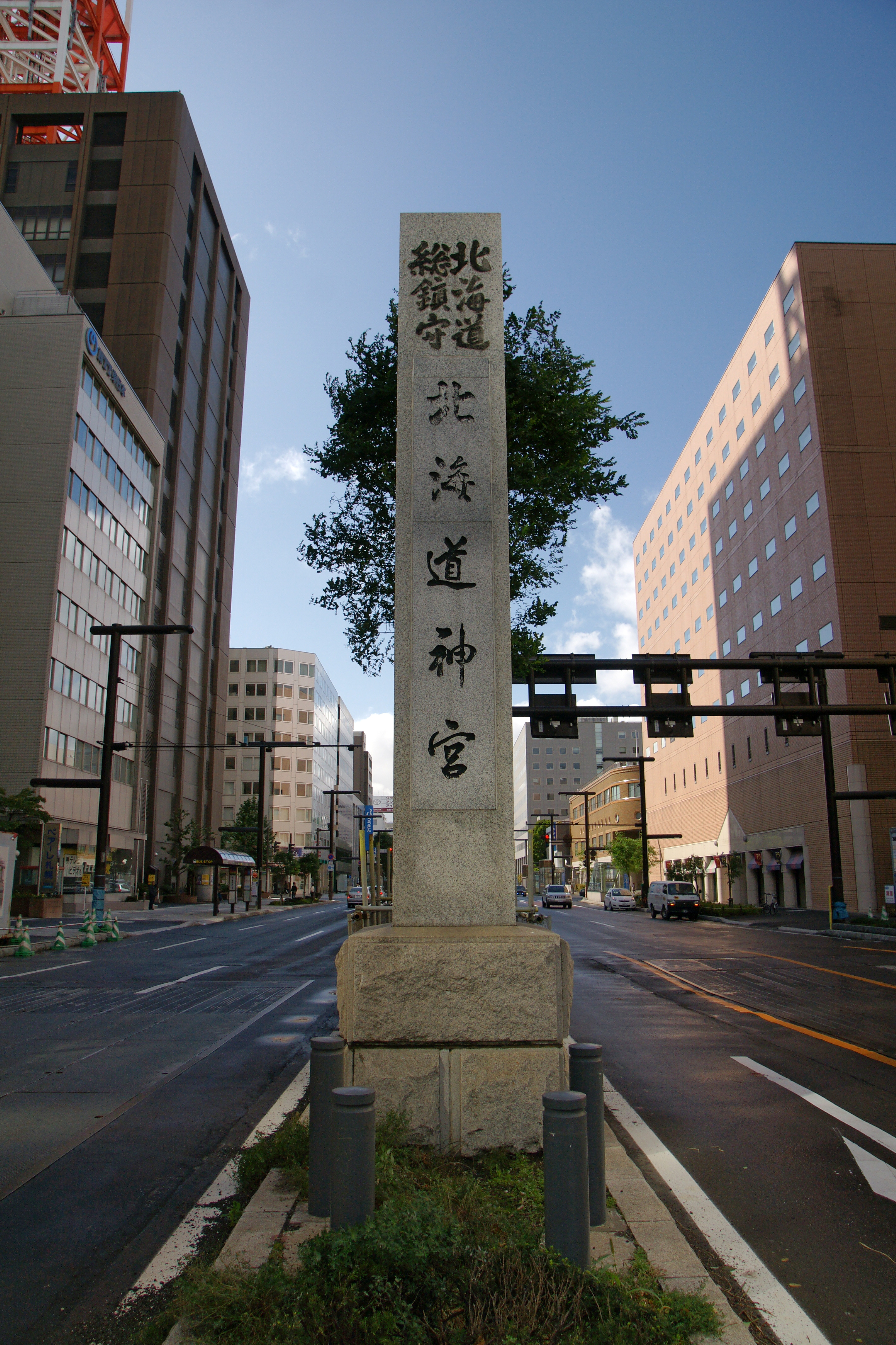 Sapporo Ekimae-dori in Sapporo, Hokkaido prefecture, Japan